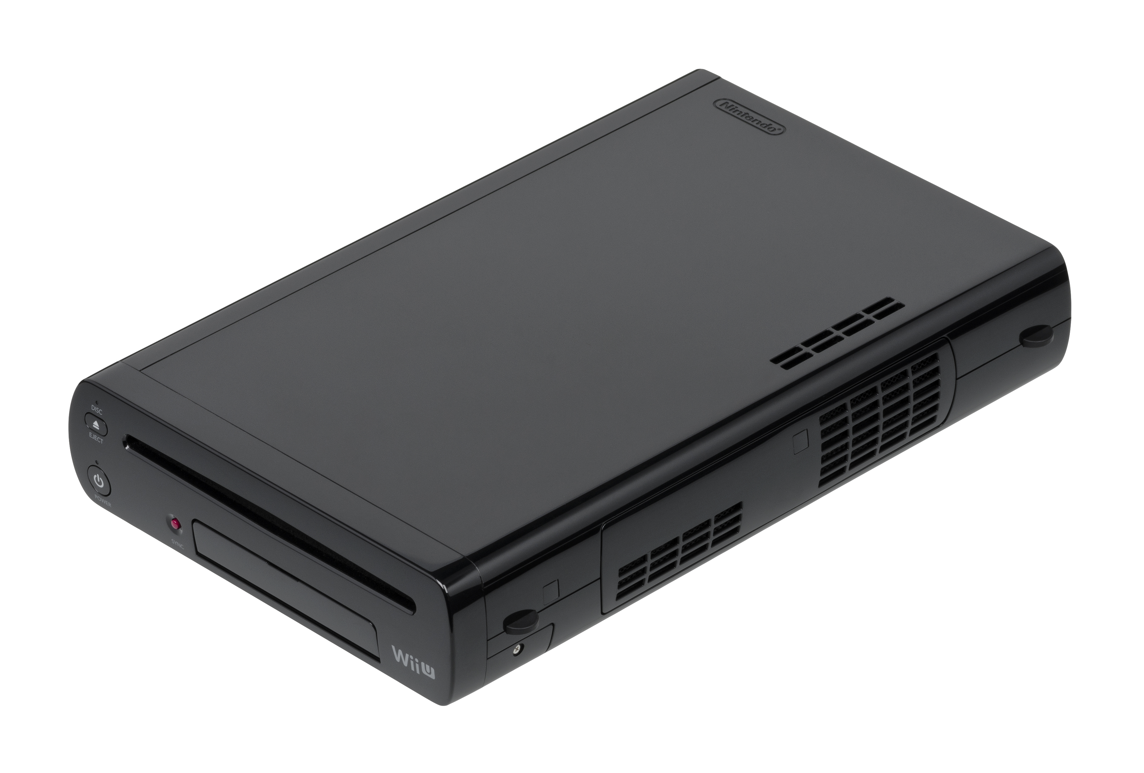 The Wii U, an eight generation video game console from Nintendo that was released in 2012.